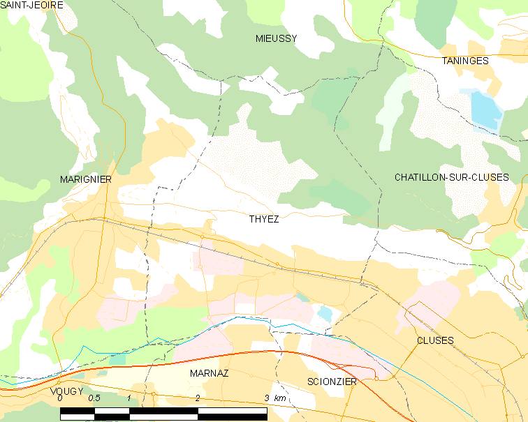 Map of French municipality Thyez